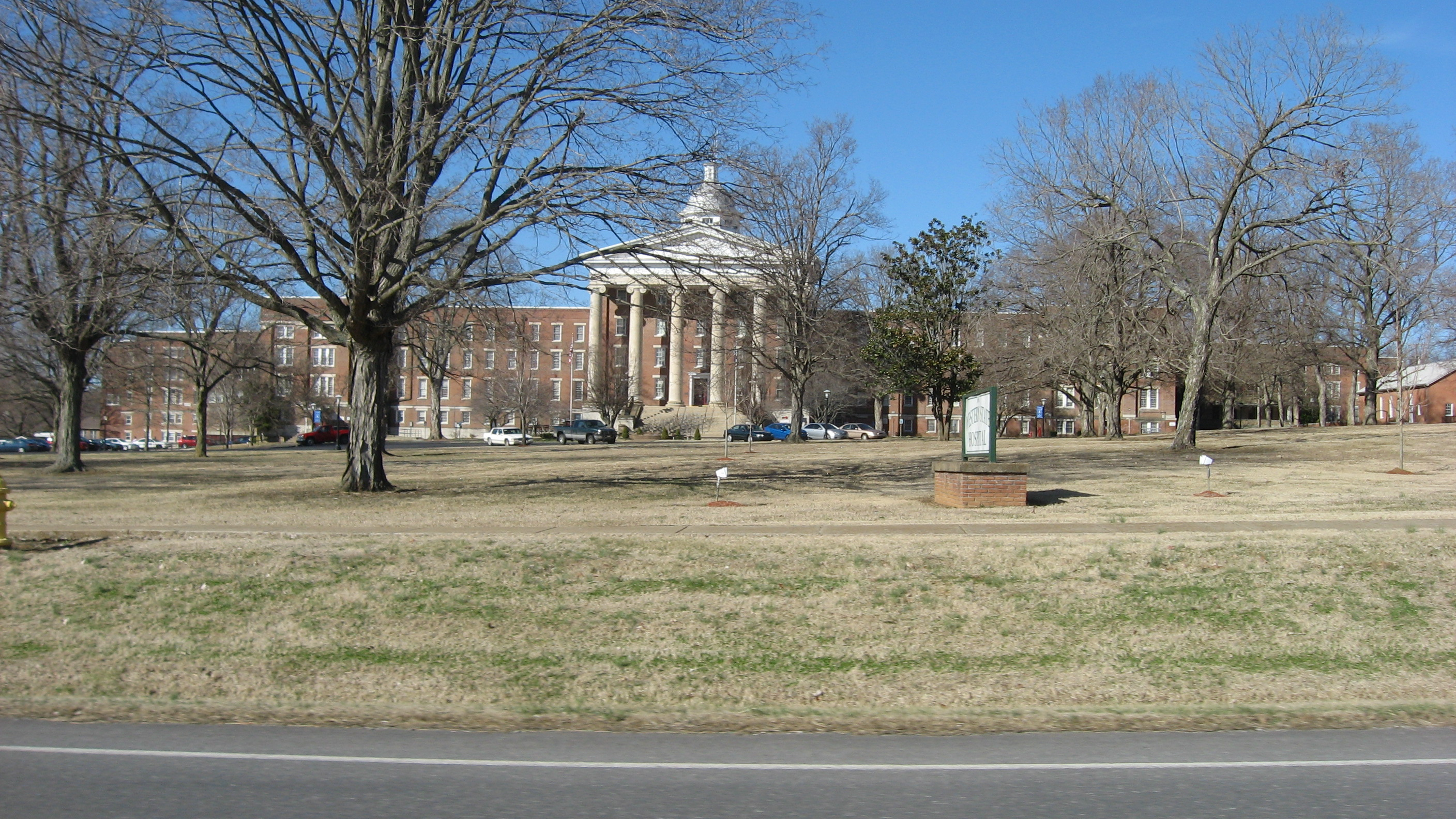 Front of the main building at Western State Hospital, located on the northern side of U.S. Route 68 in far eastern Hopkinsville, Kentucky, United States. Built in 1854, it is listed on the National Register of Historic Places.